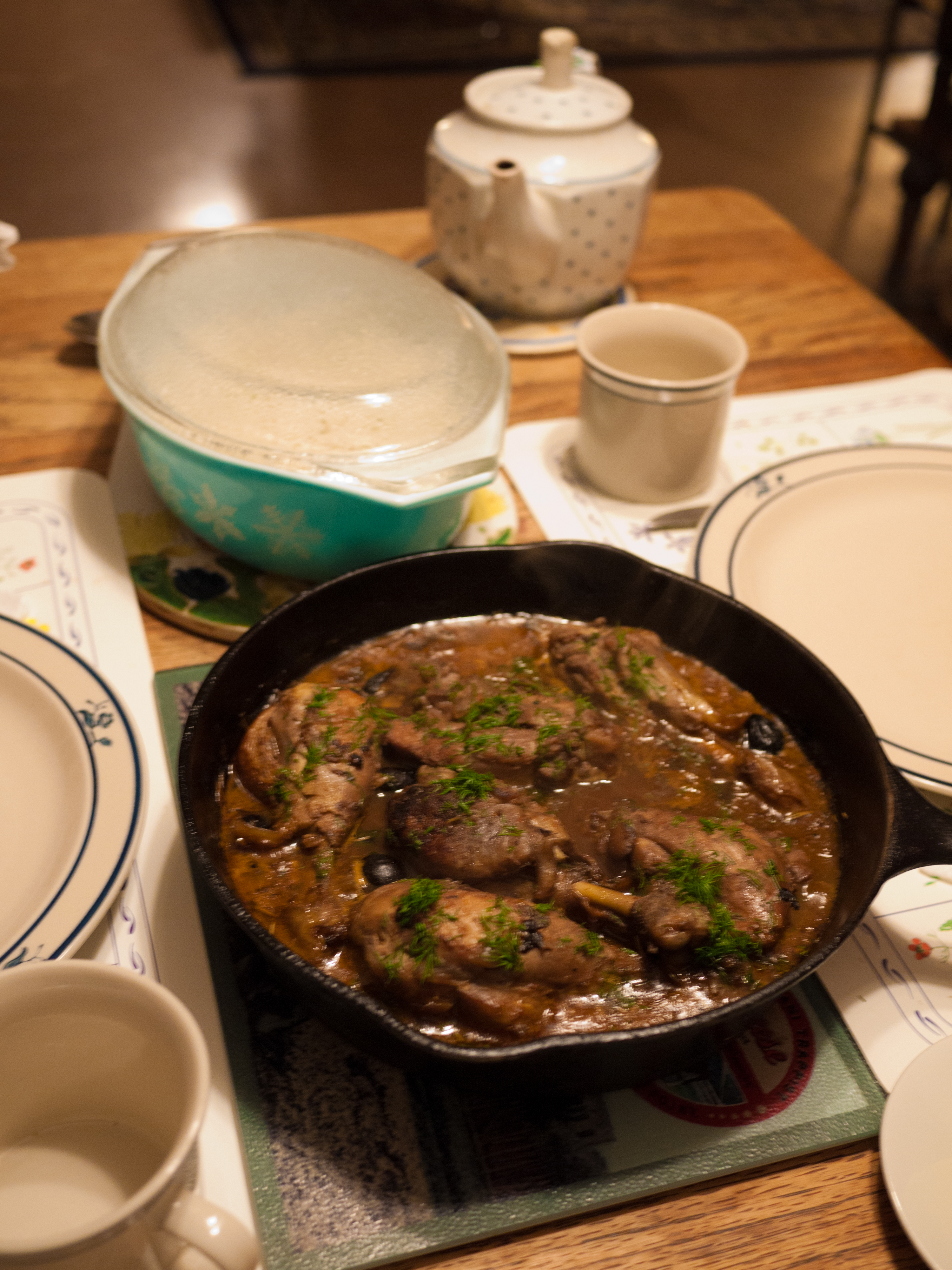 chicken marengo